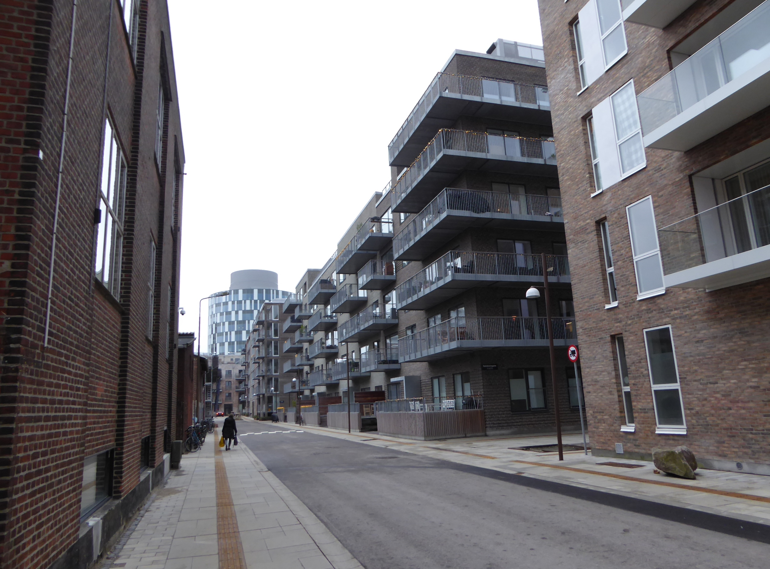 The street Trelleborggade in Nordhavn in Copenhagen.